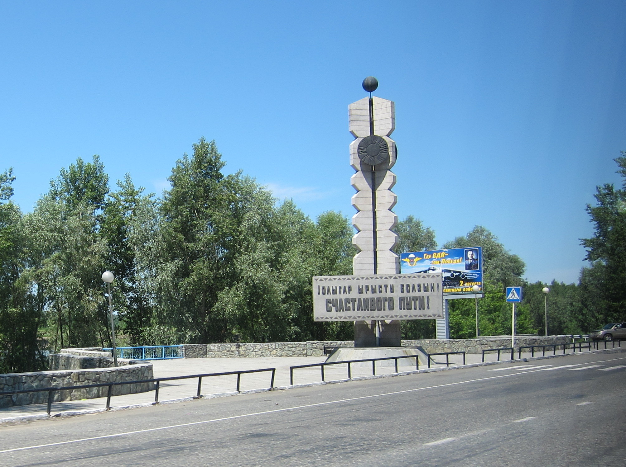 Sign on the border of the Altai Republic and Altai Krai saying "Have a safe journey!" in the Altay and Russian languages